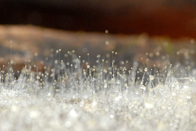 Mucor mucedo. from Commanster, Belgium. The determination of the species shown in this picture has been verified.